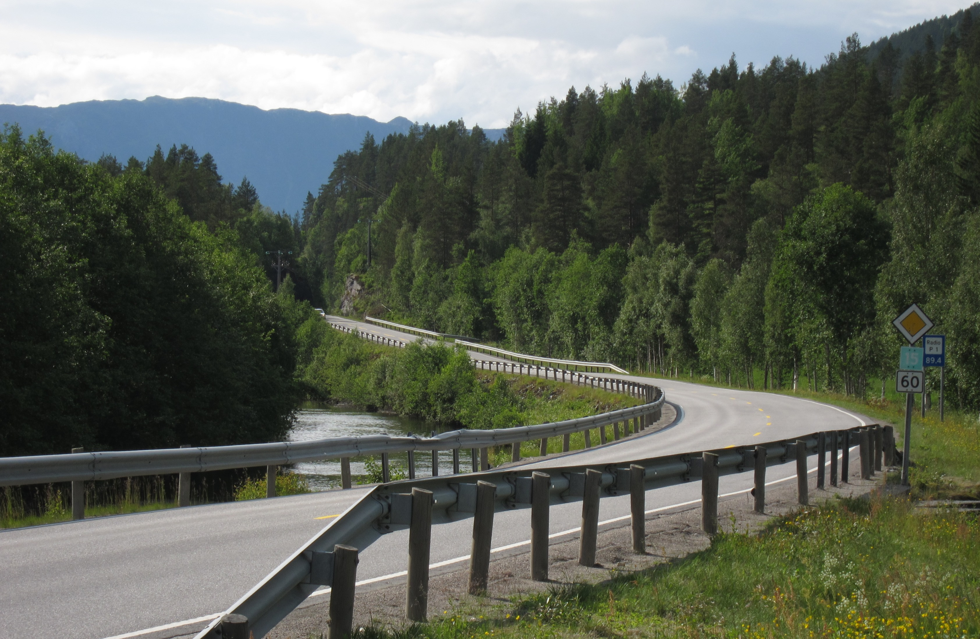 Fylkesvei 60 through Markane (Grodås-Stryn), Norway.